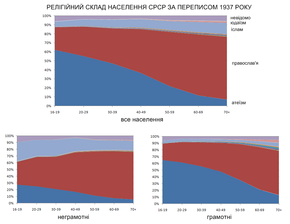 Religion of the Soviet Union's population by 10-year age groups according to 1937 census Top - all population, bottom left - illiterate population, bottom right - literate population Dark blue - atheism Red - eastern orthodox Light blue - muslim Pink - jewish